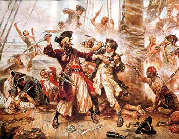 Capture of the Pirate, Blackbeard, 1718 depicting the battle between Blackbeard the Pirate and Lieutenant Maynard in Ocracoke Bay